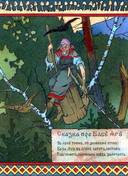 Postcard by Boris Vasilyevich Zvorykin. The character from a Russian fairy tale